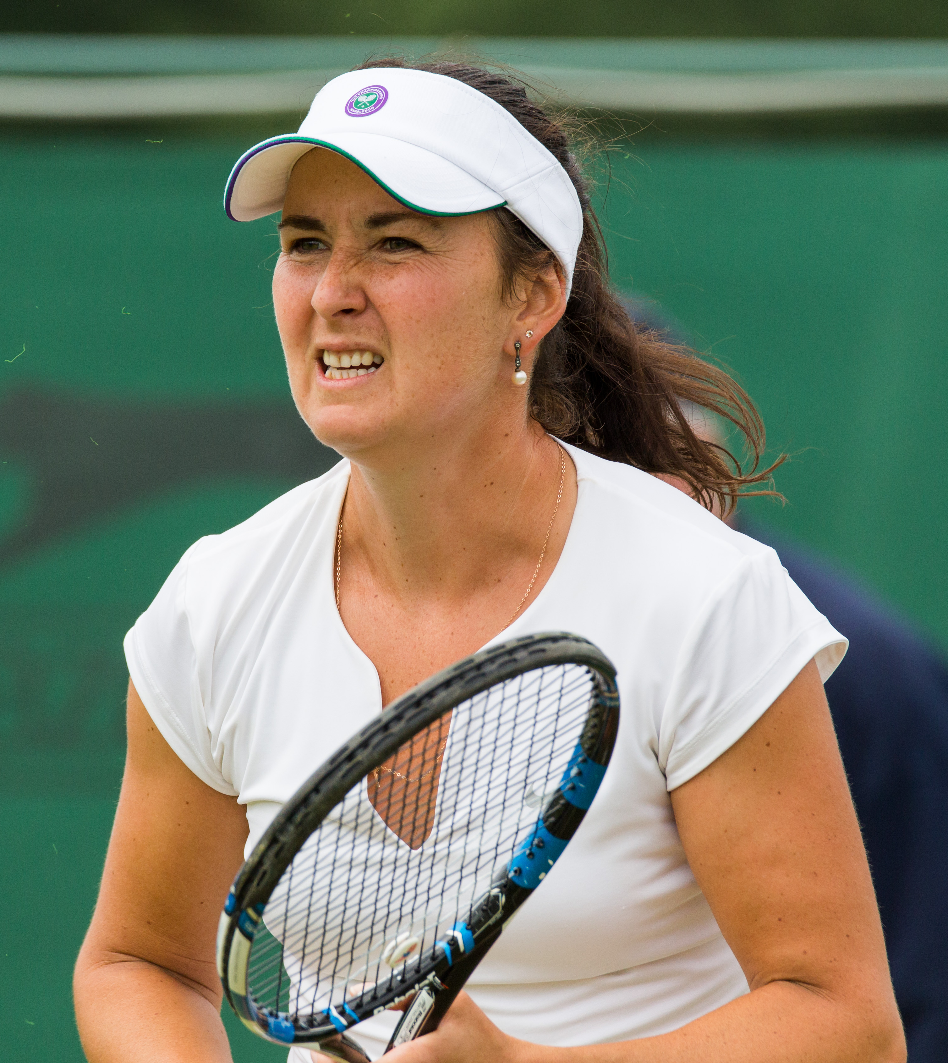 Yuliya Beygelzimer competing in the first round of the 2015 Wimbledon Qualifying Tournament at the Bank of England Sports Grounds in Roehampton, England. The winners of three rounds of competition qualify for the main draw of Wimbledon the following week.